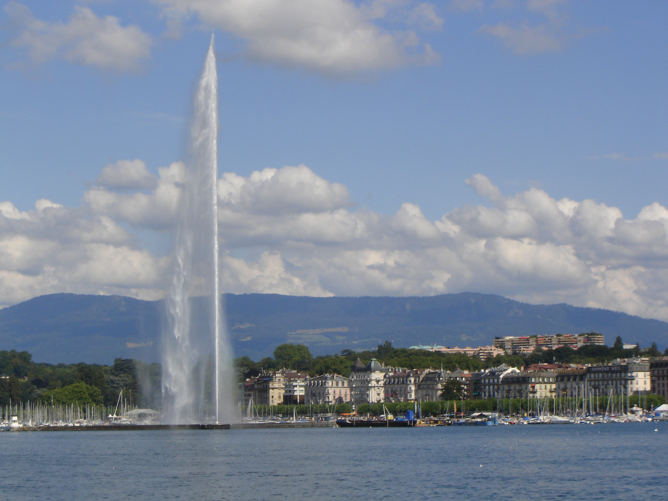 Jet D'Eau, Geneva, August 11, 2004